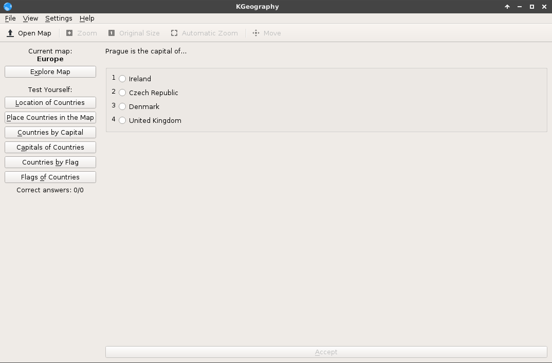 The Guess countries by capital mode in KGeography